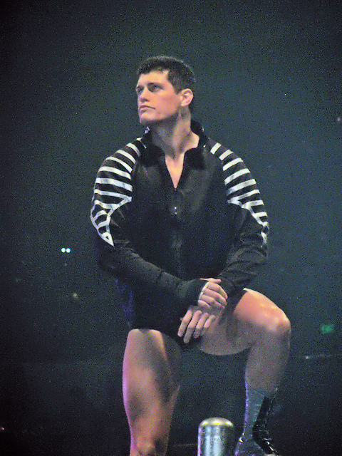 'Dashing' Cody Rhodes @ Adelaide, South Australia 'Smackdown' house show on the 3rd of August '10